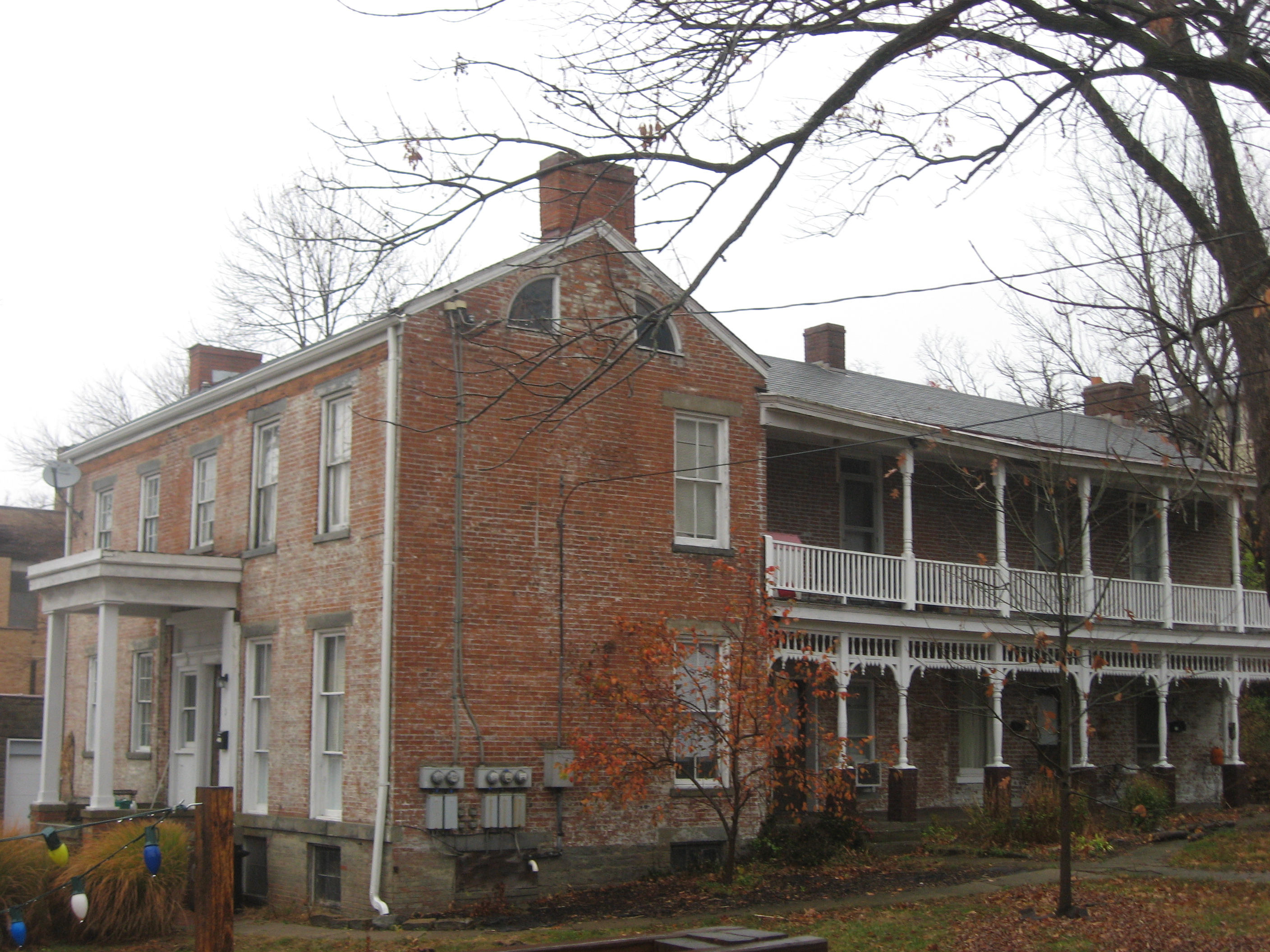 Front of the Stites House, located at 315 Stites Avenue in the Columbia-Tusculum neighborhood of Cincinnati, Ohio, United States. Built in 1835, it is listed on the National Register of Historic Places.